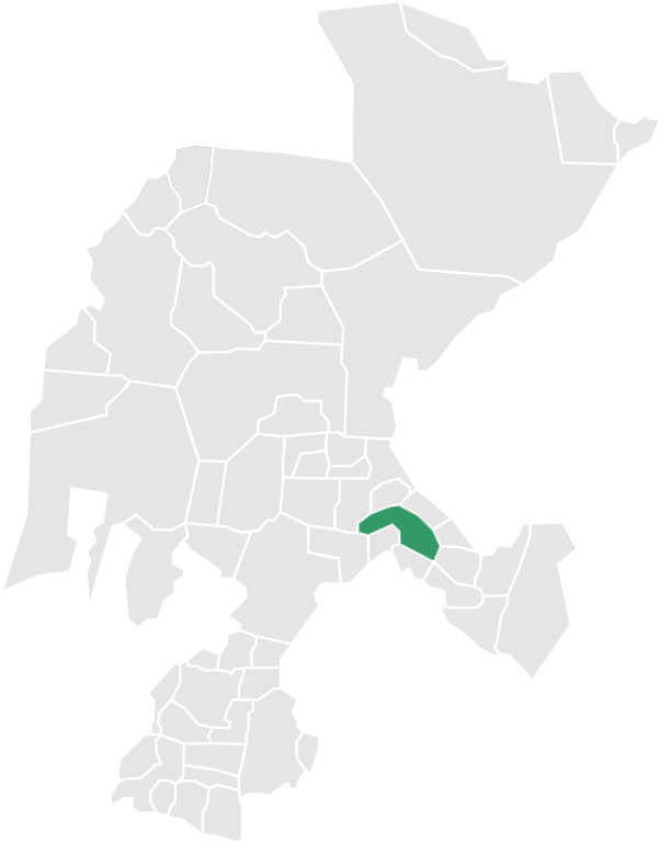 Map of the Municipality of Ojocaliente in Zacatecas, México.